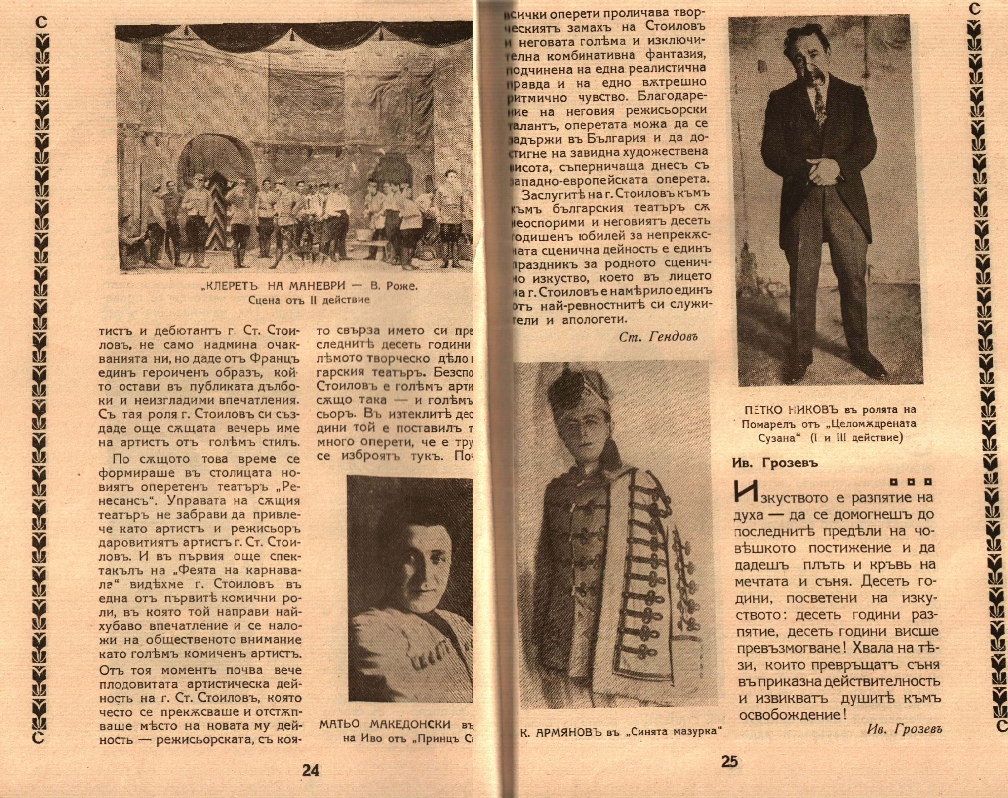 Stoil Stoilov